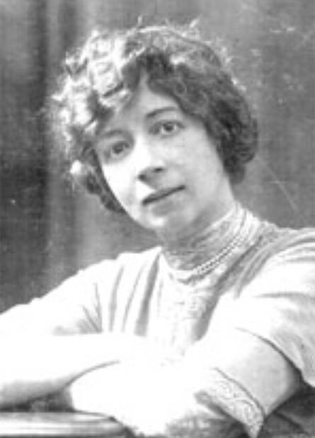 Image entitled "Вера Михайловна Данчакова, нач. ХХ в."Vera Mikhaĭlovna. Danchakova, beg. Twentieth century."